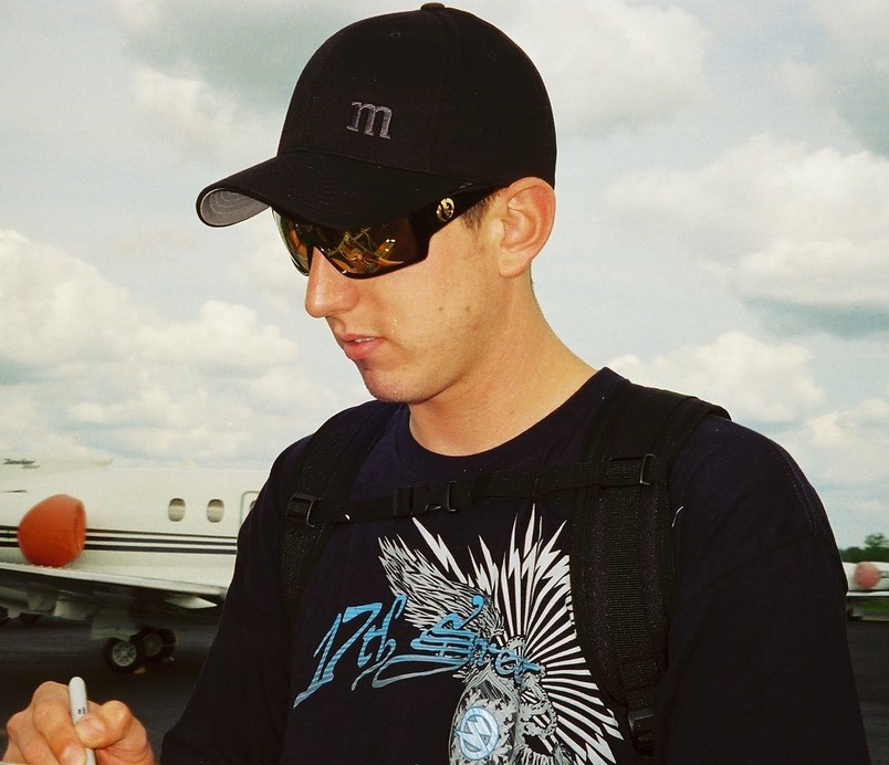 Talladega, AL 4-08 arriving for nascar race